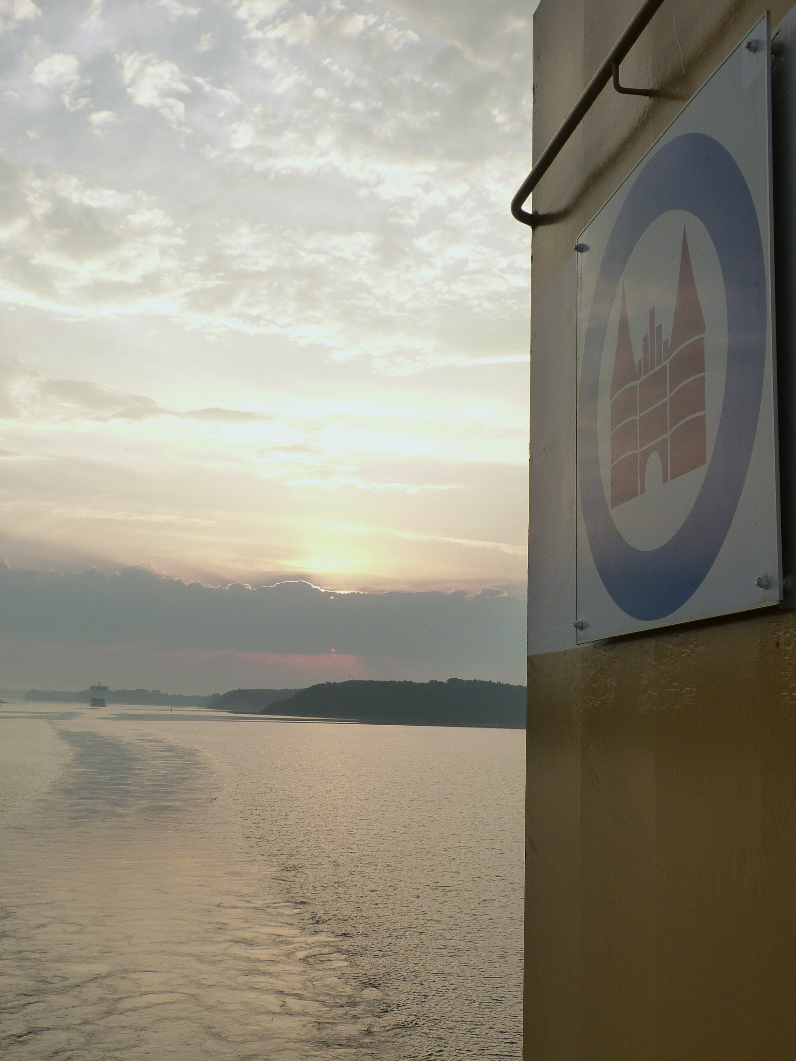 Das Firmenwappen, das Holstentor, ziert den Schornstein aller Lehmannschiffe